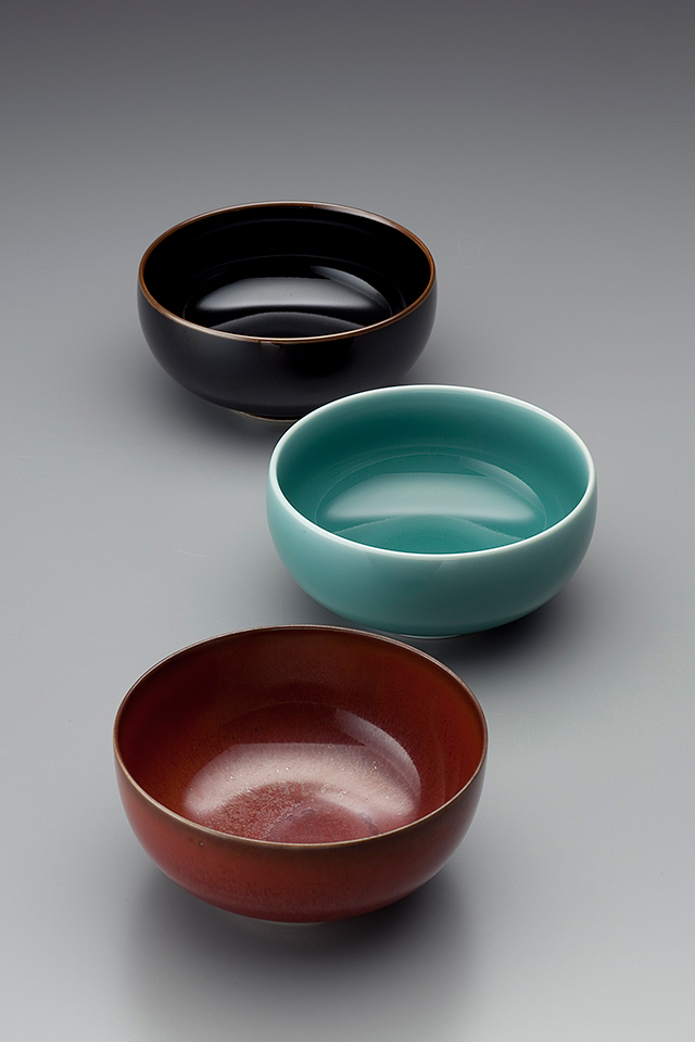 Tenmoku Soup Bowl (back), Celadon Soup Bowl (center), Red Iron Soup Bowl (front) (1972), Masahiro Mori (ceramic designer) designed